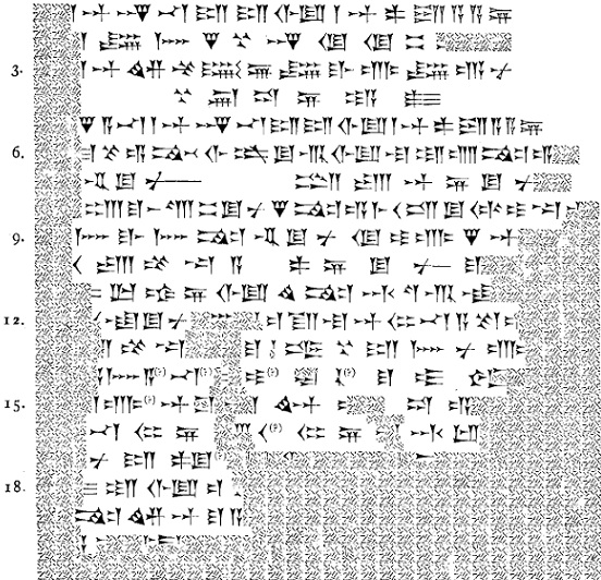 Text of tablet K. 3045 Adad-šuma-uṣur's rude letter to Aššur-nirari III and Ilī-ḫaddâ (ABL 924). (Some specific cuneiform signs, by line): Line 1--ù (cuneiform) 2--LUGAL (king Sumerogram), KUR (land Sumerogram) 3--ŠEŠ (brother Sumerogram) 4--KUR (land Sumerogram) 5--ù (cuneiform) 6--ku (cuneiform), ù (cuneiform), la (cuneiform), am (cuneiform) 7--en, ku, nu (cuneiform) 8--u (cuneiform), i (cuneiform) 9--meš (cuneiform), GAL (cuneiform), bil (ne), en, ku, nu, ku, i, ú, šá, an 10--u (cuneiform), pa, ni, ku 11--ur, ?, ni, ù (cuneiform), hi, ud (cuneiform) 12--mi (cuneiform) 13--KUR (land Sumerogram) 14--meš (cuneiform), i (cuneiform), šú 15--ú 16--Mi (cuneiform) 17--nu (cuneiform) 18--ia (cuneiform), ù (cuneiform) 19--im, an 20